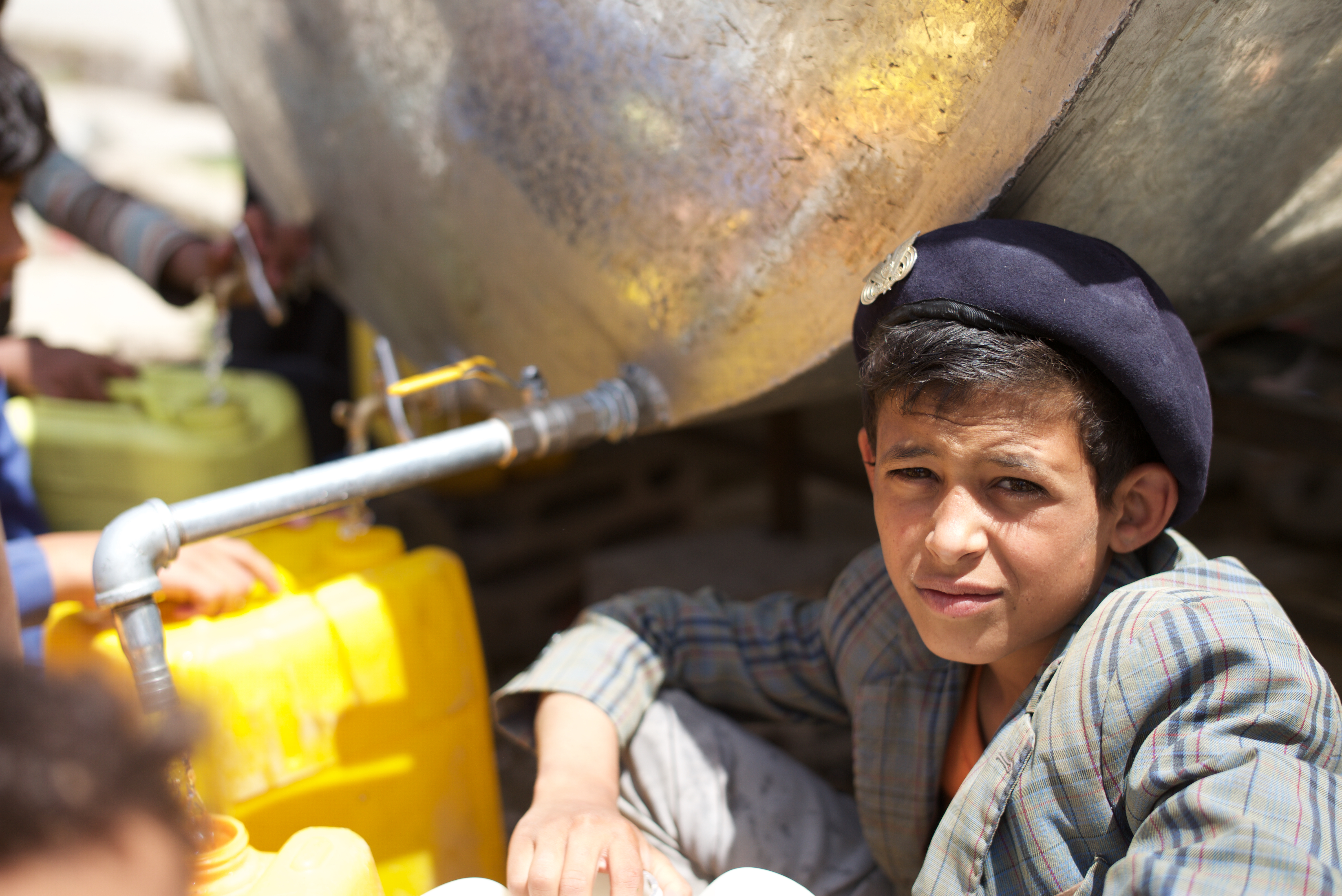 With fuel almost impossible to get hold of in Sanaa, the water authority could not operate the network, so UNICEF worked with the Yemen Petroleum Company to buy fuel and organise water trucking to the most vulnerable parts of Sanaa. We are doing similar work across all parts of the country. Without clean water waterborne diseases are a certainty and put children at risk.